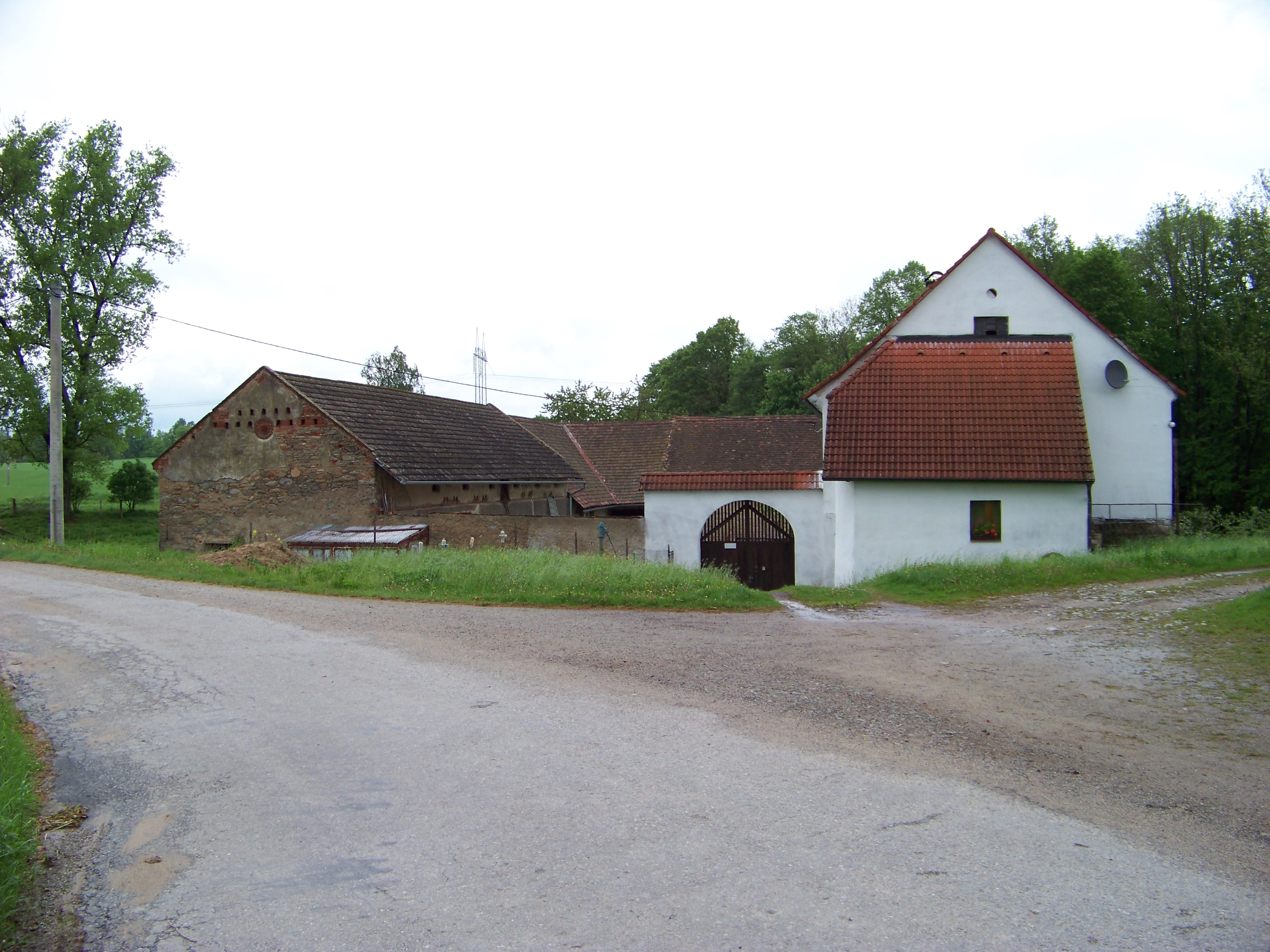 Vrchotovy Janovice-Braštice, Benešov District, Central Bohemian Region, the Czech Republic. Kamenný Mlýn. - OpenStreetMap(Info)